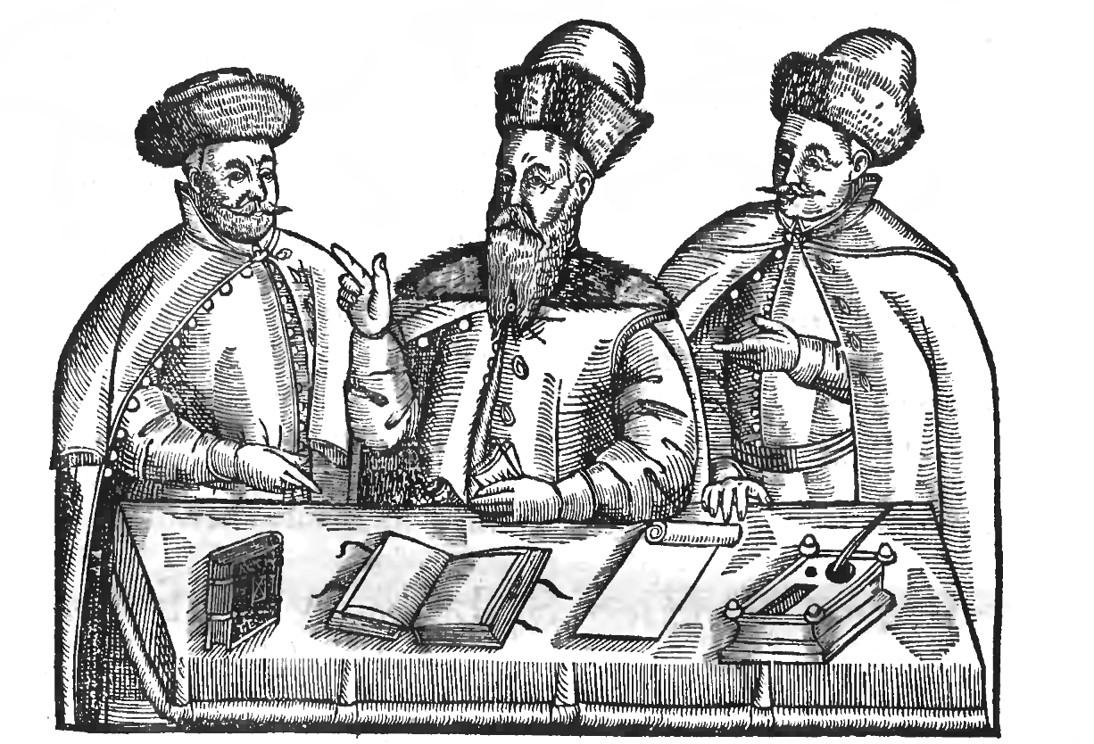 Polish Land Court (plate from 1594)